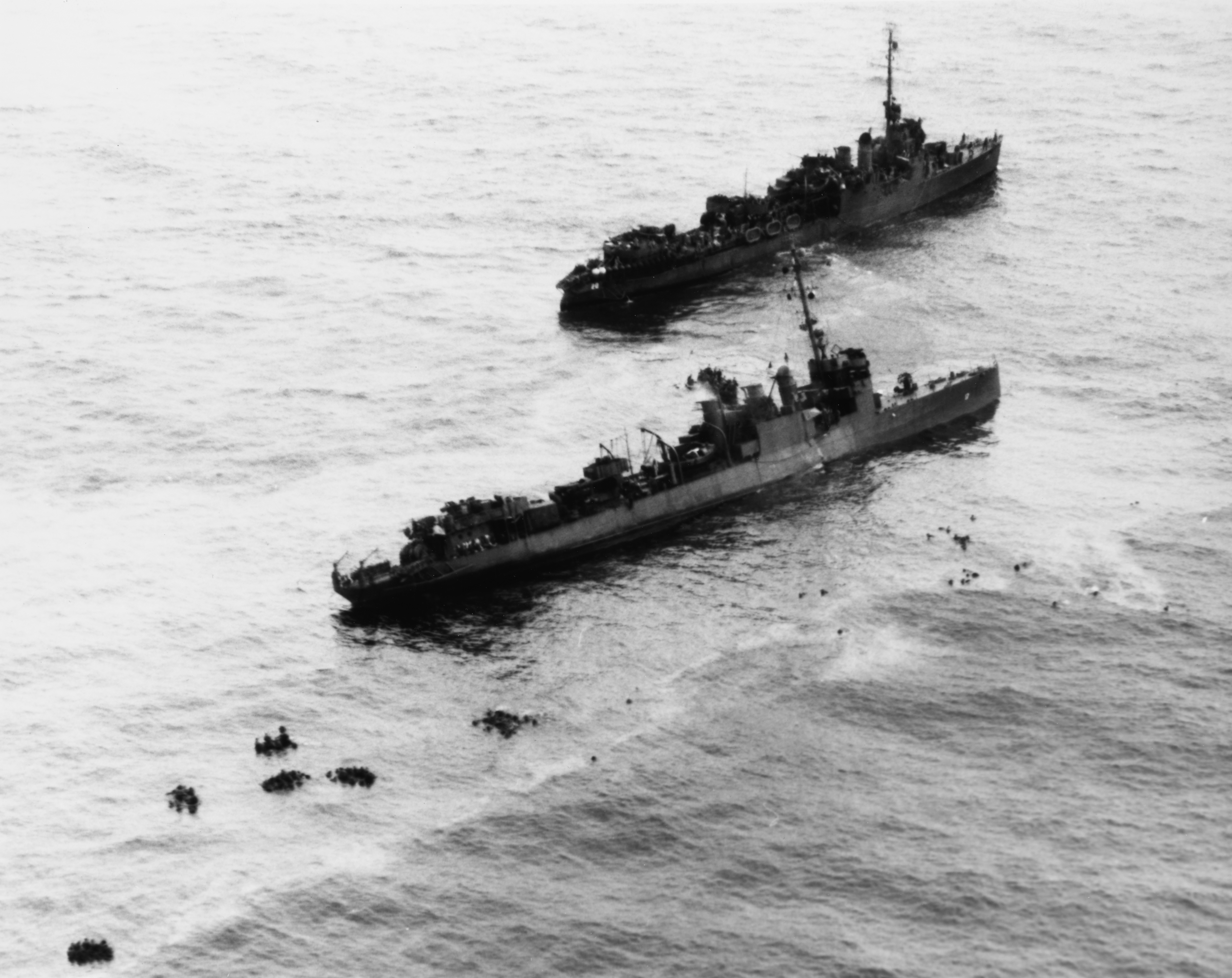 The U.S. Navy destroyer-minesweeper USS Perry (DMS-17) being abandoned after striking a mine off Angaur, 13 September 1944, during the Palaus operation. USS Preble (DM-20) is standing by.